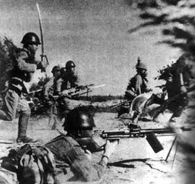 1944_Operation_Ichigo_IJA_invaded_Henan.